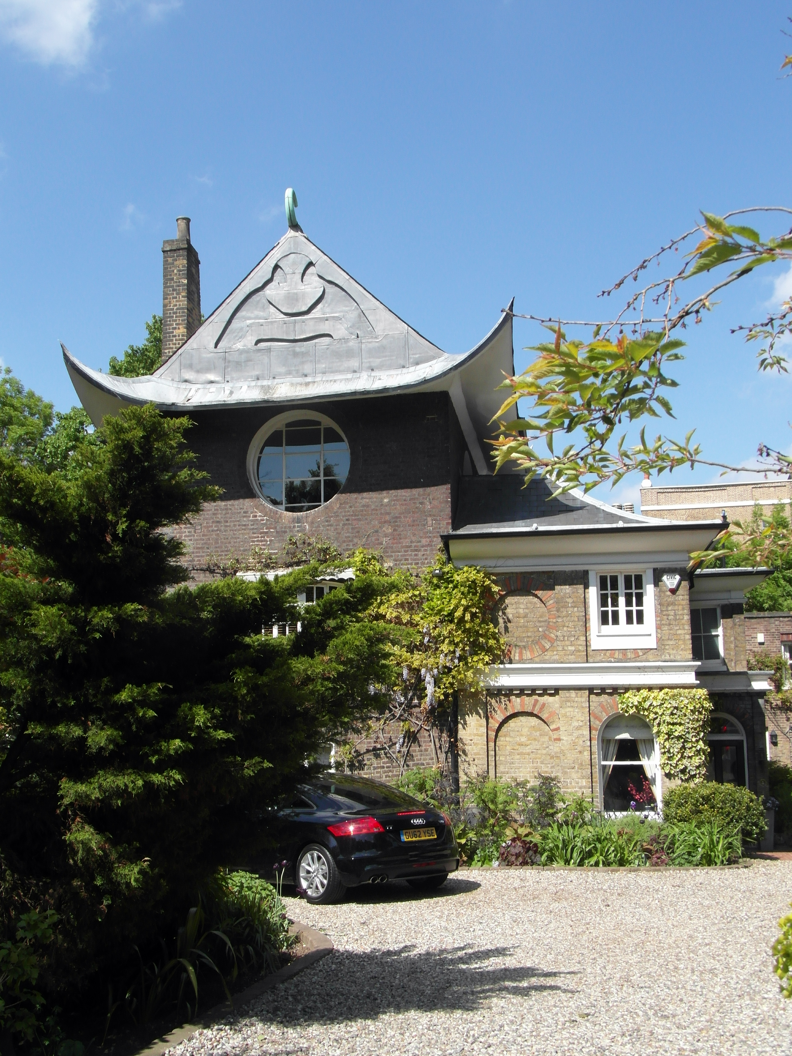 Pagoda Gardens, Blackheath. Built some time before 1815.